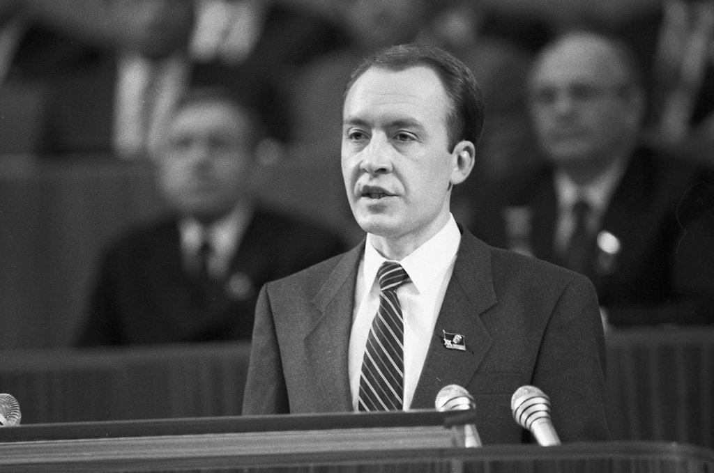 “Viktor Mironenko speaks”. First Secretary of the Central Committee of All-Union Leninist Young Communist League Viktor Mironenko speaks at XX convention of AULYCL. The Kremlin Palace of Congresses.